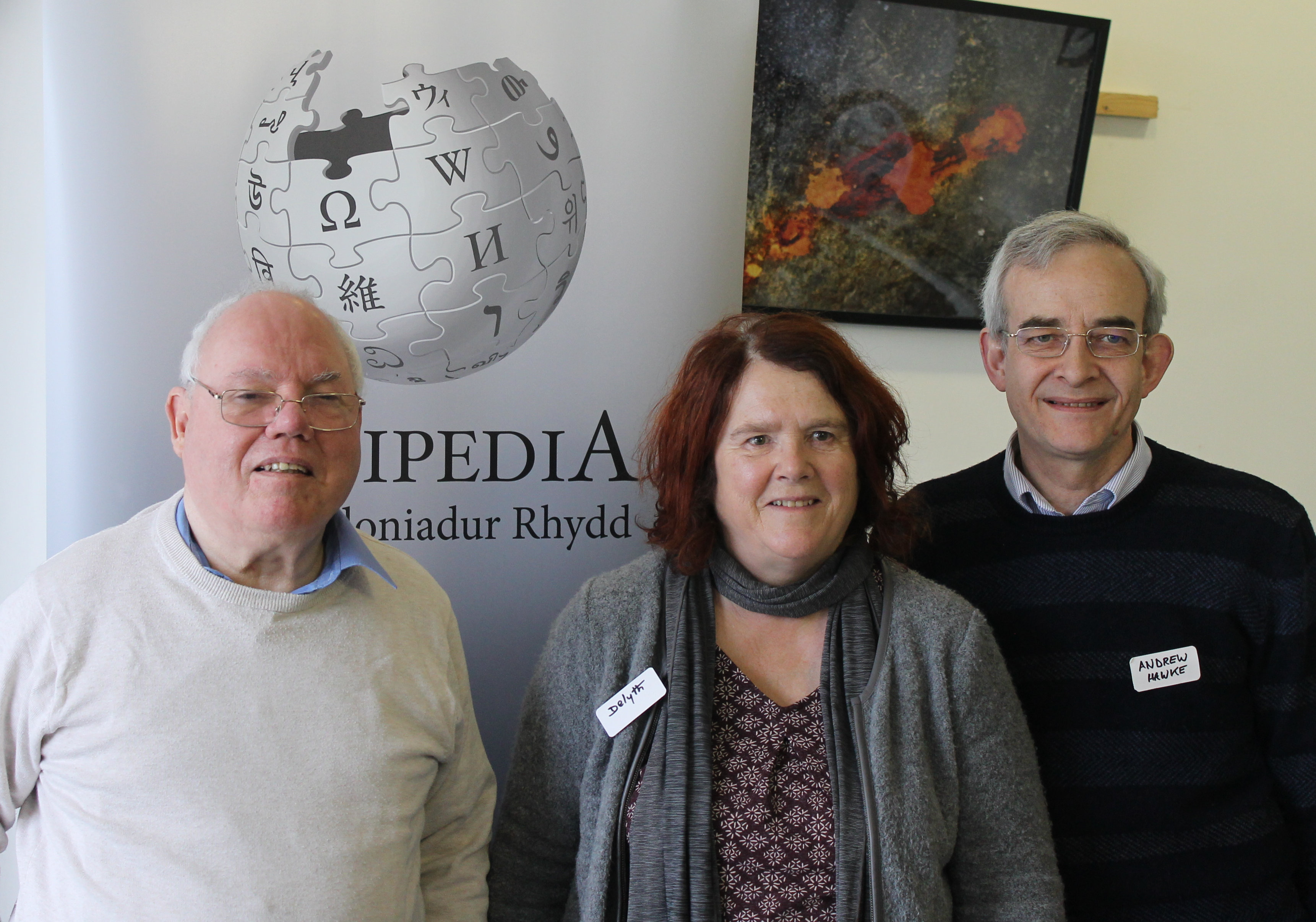 Wici Natur Conference at Plas Tan y Bwlch, Maentwrog, North Wales. May 2017. Bruce Griffiths, Delyth Prys Jones and Andrew Hawke.